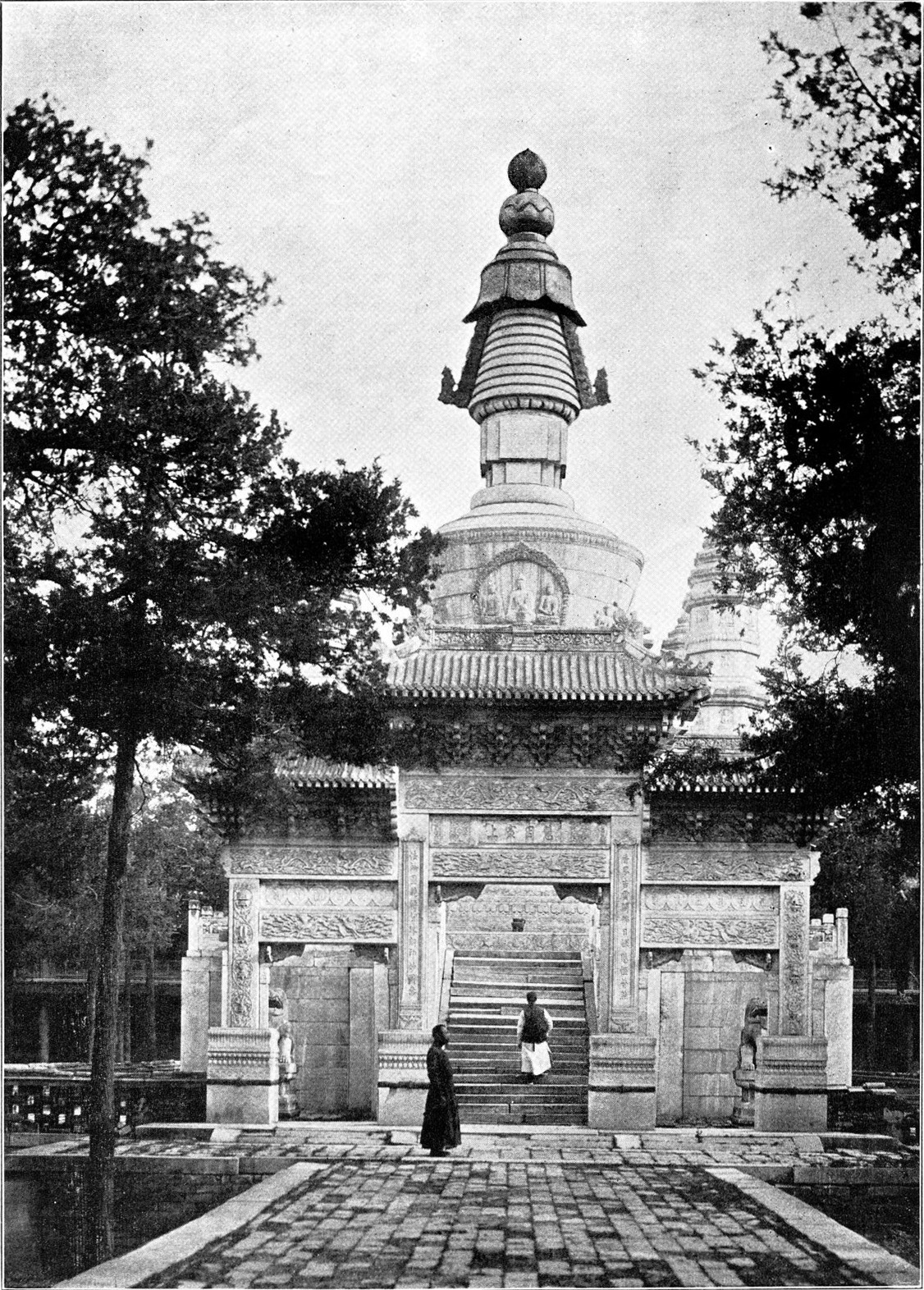 Peking (1906) by Sanshichiro Yamamoto Photo form Peking (1906), by Sanshichiro Yamamoto.